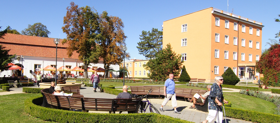 LD Mánes